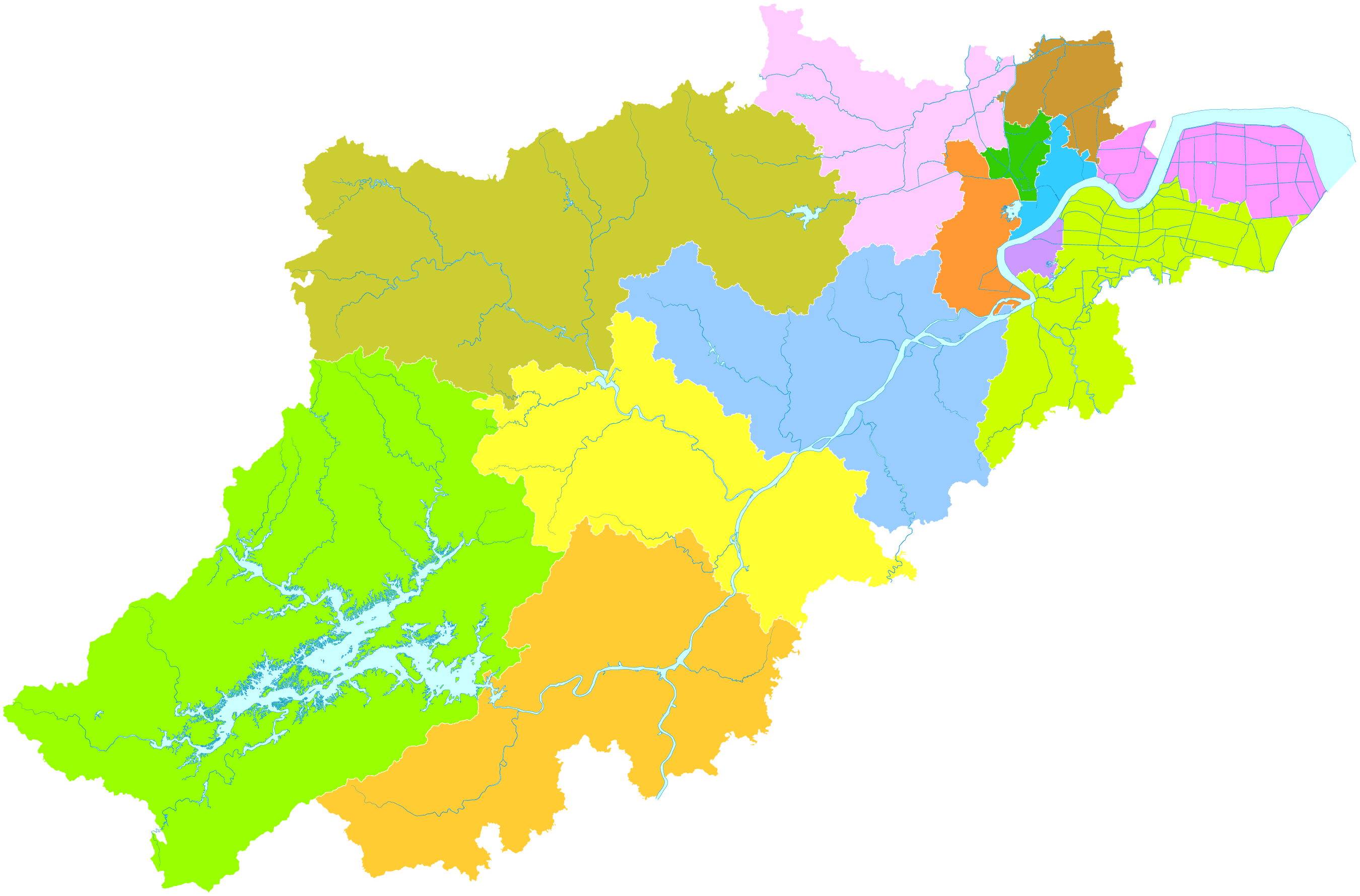 administrative divisions of Hangzhou City, Zhejiang, China